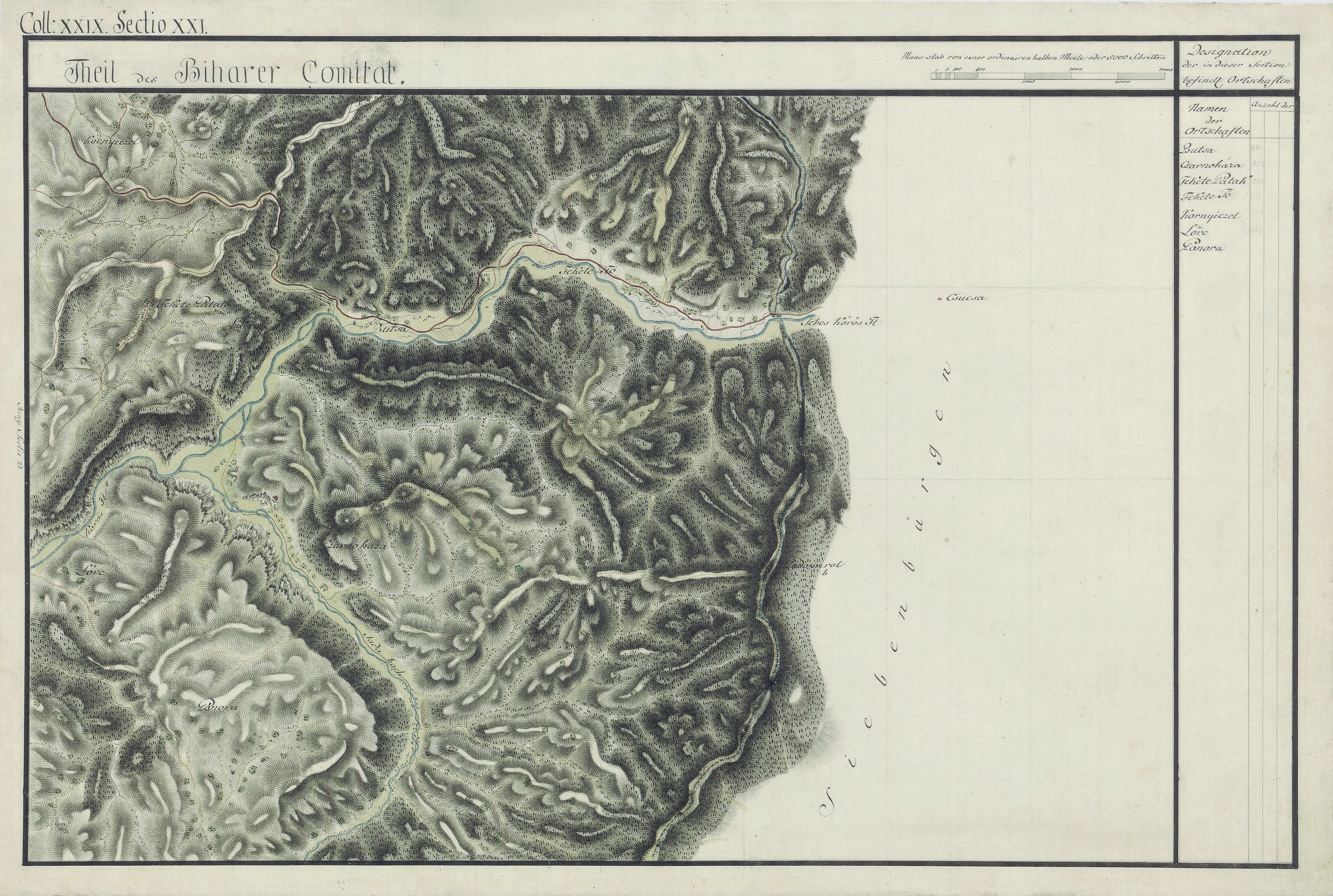 Bihor County, 1782-85. Josephinische Landesaufnahme pg.29-21